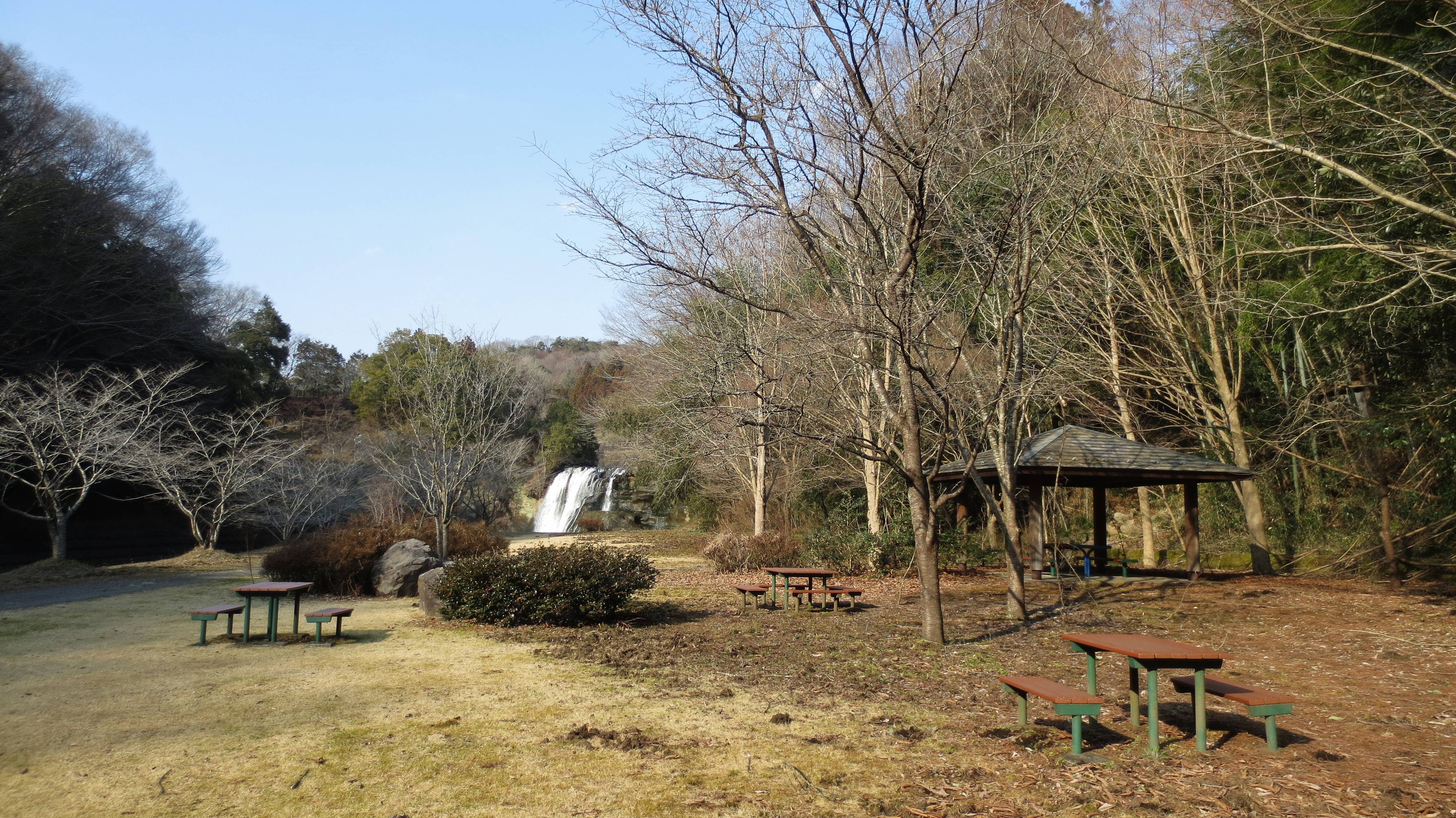 Ryumon Fall (Tochigi) park.